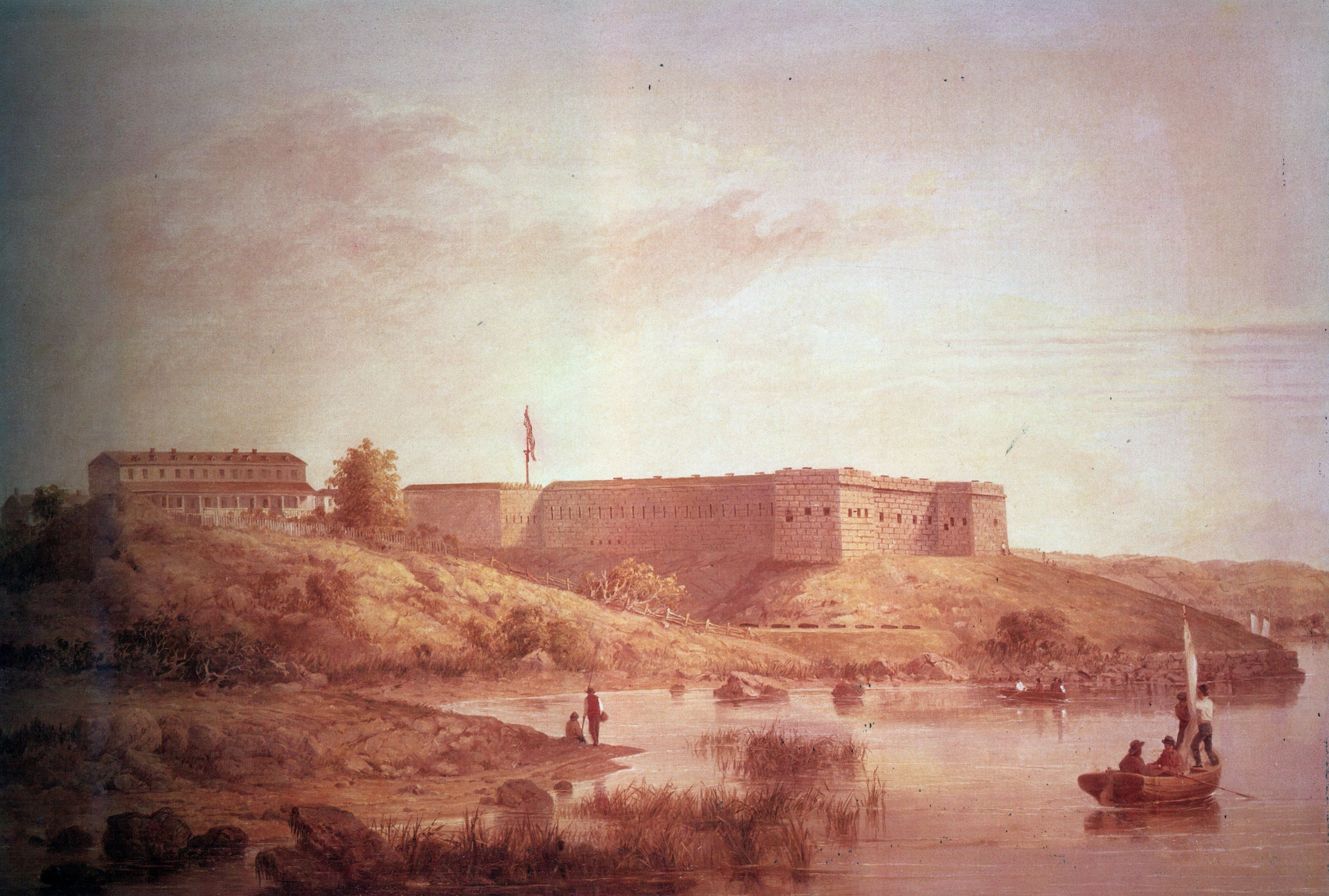 The structure depicted by Eastman is the third fort constructed on the same site with the same name. In 1775, recognizing the necessity of protecting harbors from British occupation, the General Assembly of Connecticut ordered fortifications prepared between the mouth of the river Thames and the town of New London. Named for Governor Jonathan Trumbull, the first Fort Trumbull, completed in 1777, was apparently a primitive affair designed solely to cover the river. Its fatal flaw, an open landward side, allowed British forces, led by the American Benedict Arnold, easily to overrun the fort's 23-man garrison from the rear and put New London to the torch in 1781. In 1812, again responding to the threat of British occupation, a new, more powerful redoubt was erected on the site. Although British warships remained near the mouth of the Thames River for much of the War of 1812, this fort, in conjunction with its companion on the opposite shore, apparently provided sufficient deterrence to prevent the fleet from attempting to enter the harbor. In 1839 a new fortress replaced this second fort. According to the 1870 Surgeon General's report on barracks and hospitals, it incorporated "all the latest improvements in the science of defense and gunnery." The completed 1839 fortress appears in Eastman's painting.